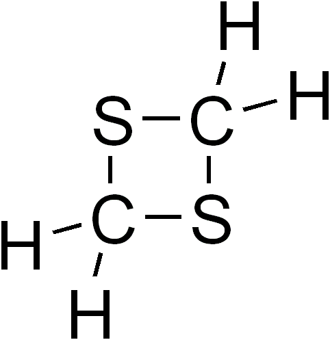 chemical structure of 1,3-dithietane